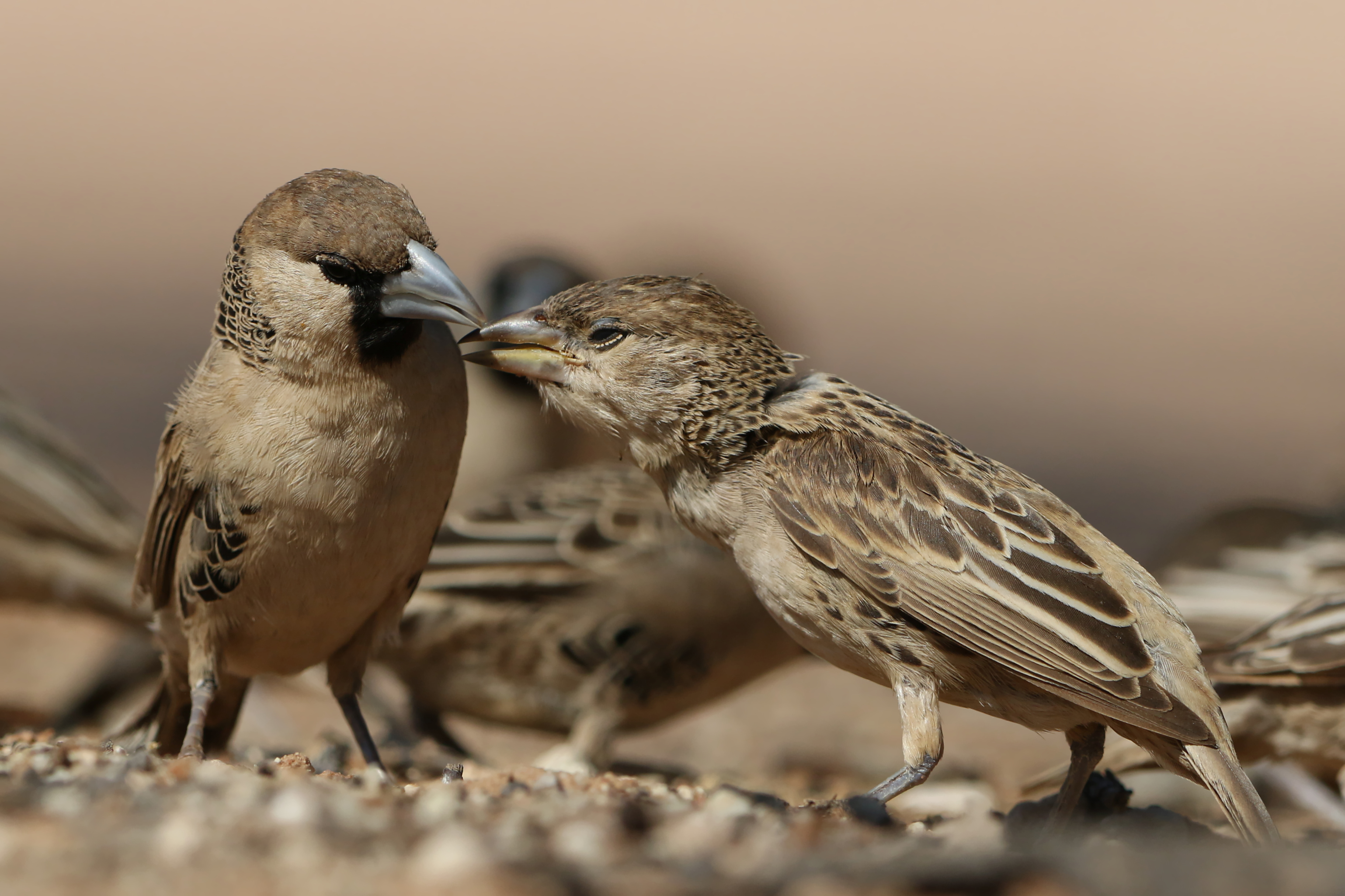 It is the only species assigned to the monotypic genus Philetairus. Sociable weavers are found in South Africa, Namibia, and Botswana, but their range is centered within the Northern Cape. They build large compound community nests, perhaps the most spectacular structure built by any bird.